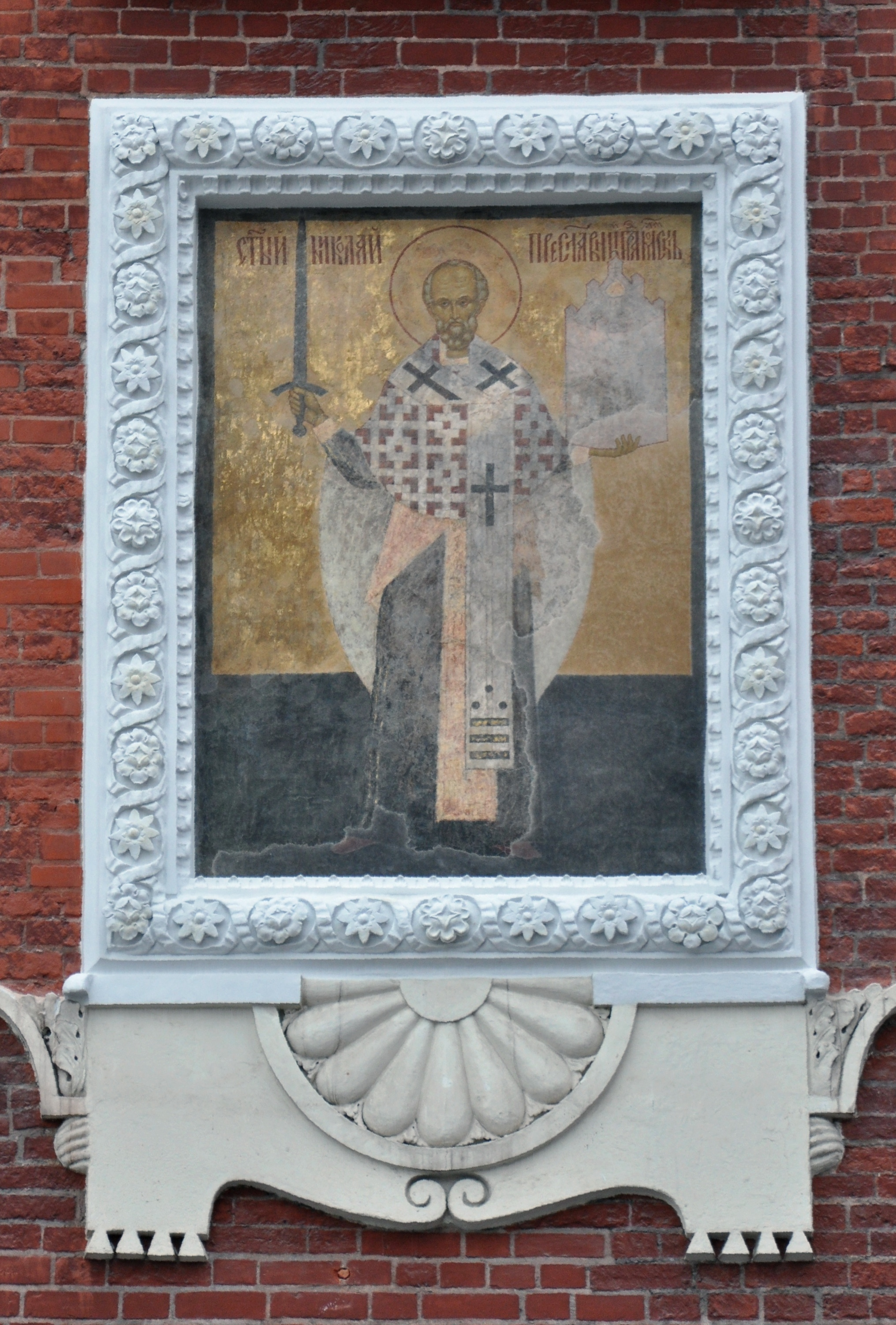 Above the gate icon of St. Nikolaus Mozhaisky